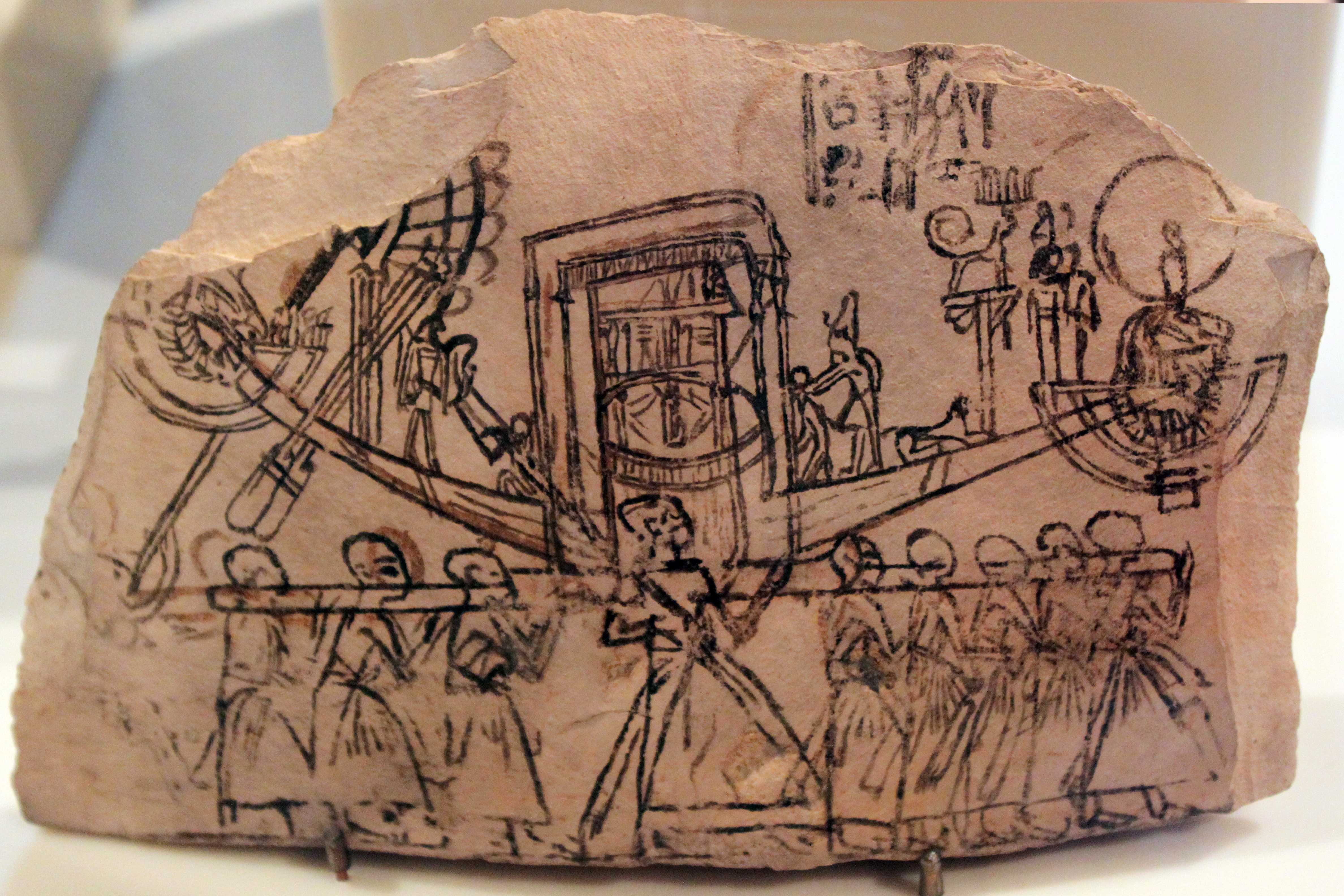 Ostracon with procession; 19th dynasty (1192-1186); Neues Museum Berlin, Germany; ÄM 21434